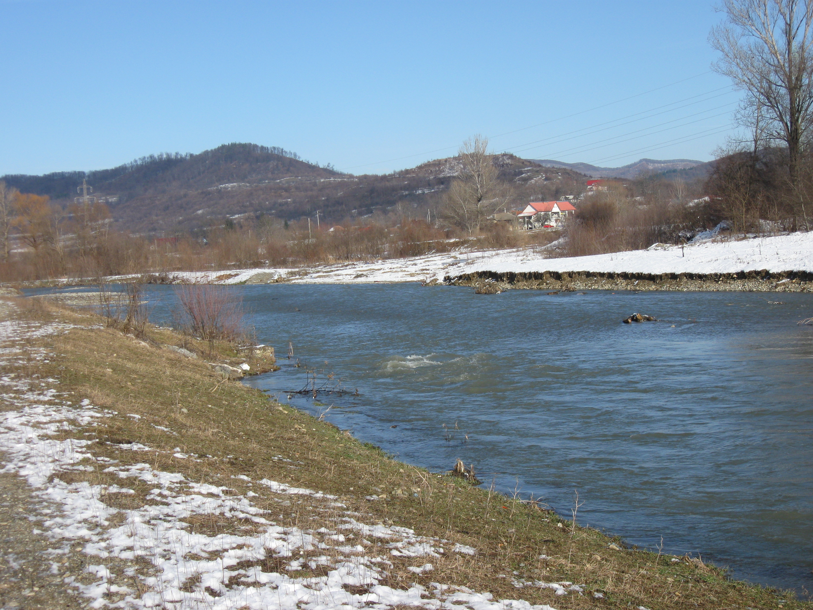 Râul Târgului at Mihăeşti, Argeş County.